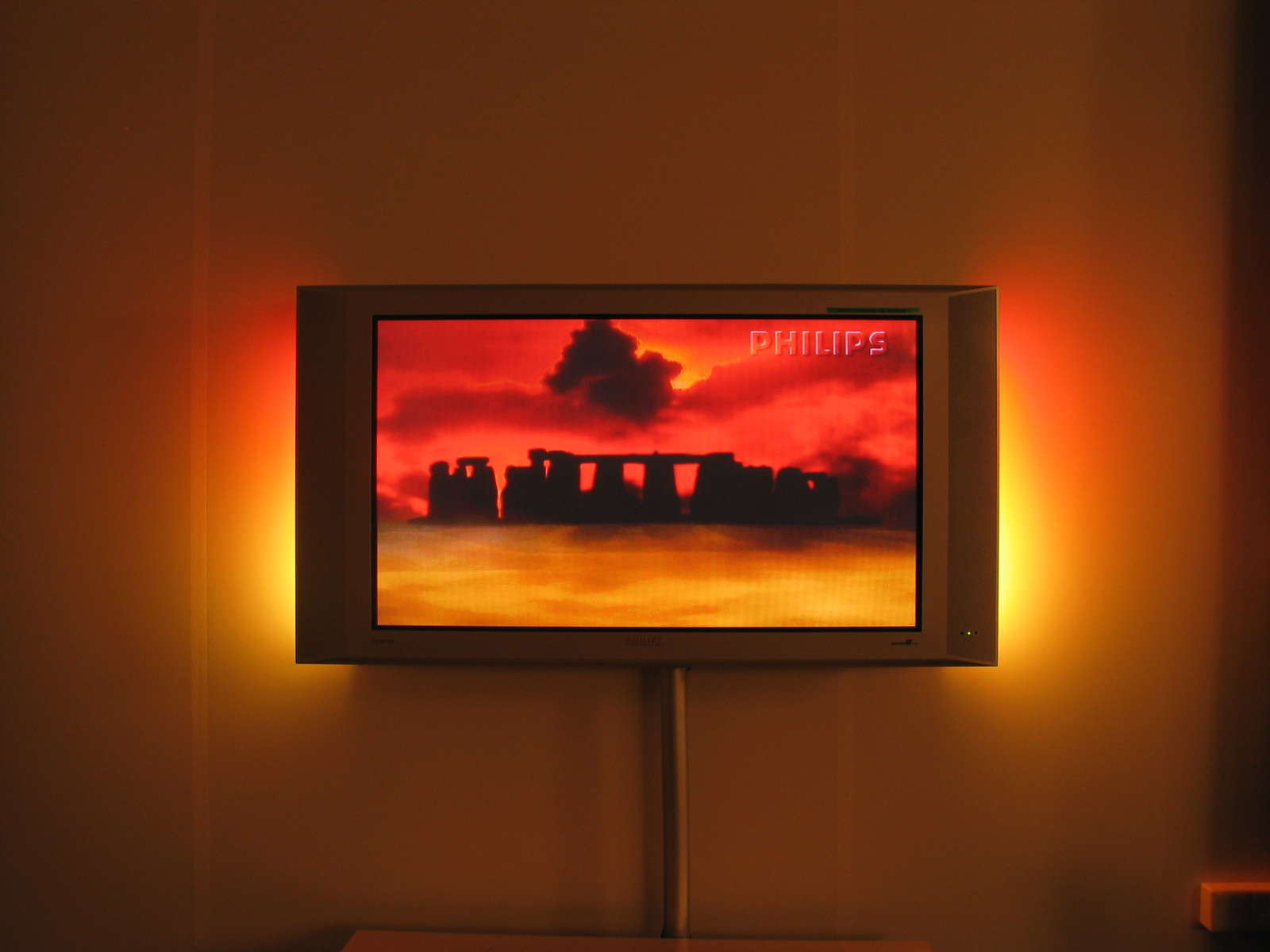 First Ambilight prototype made at the Philips ASA lab in 2003, using red, green and blue LED’s (4 of each).